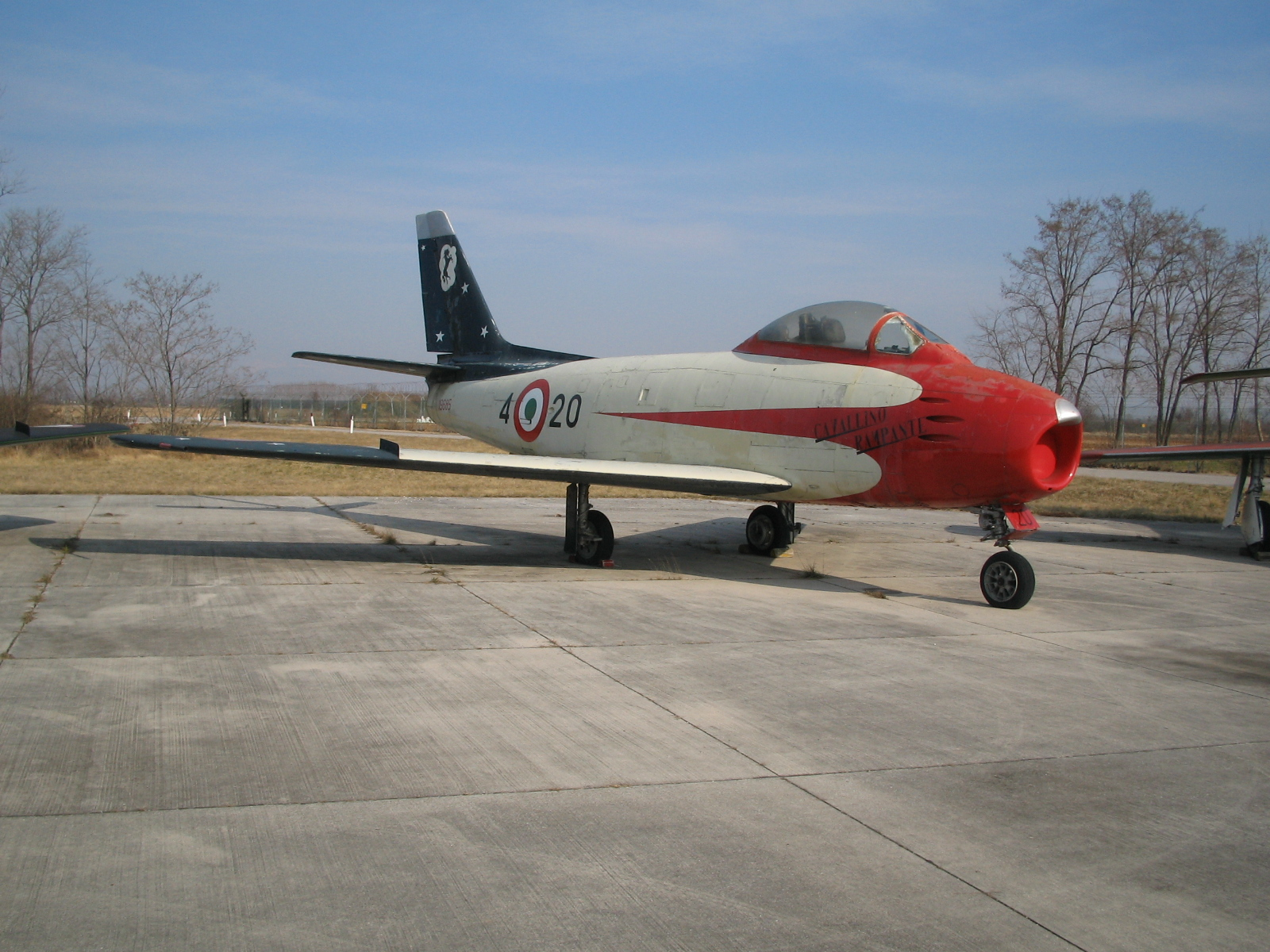 Italian Air Force of "Cavallino Rampante" F-86 Sabre